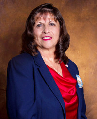 Kathy Meehan, incumbent Mayor of Melbourne, Florida